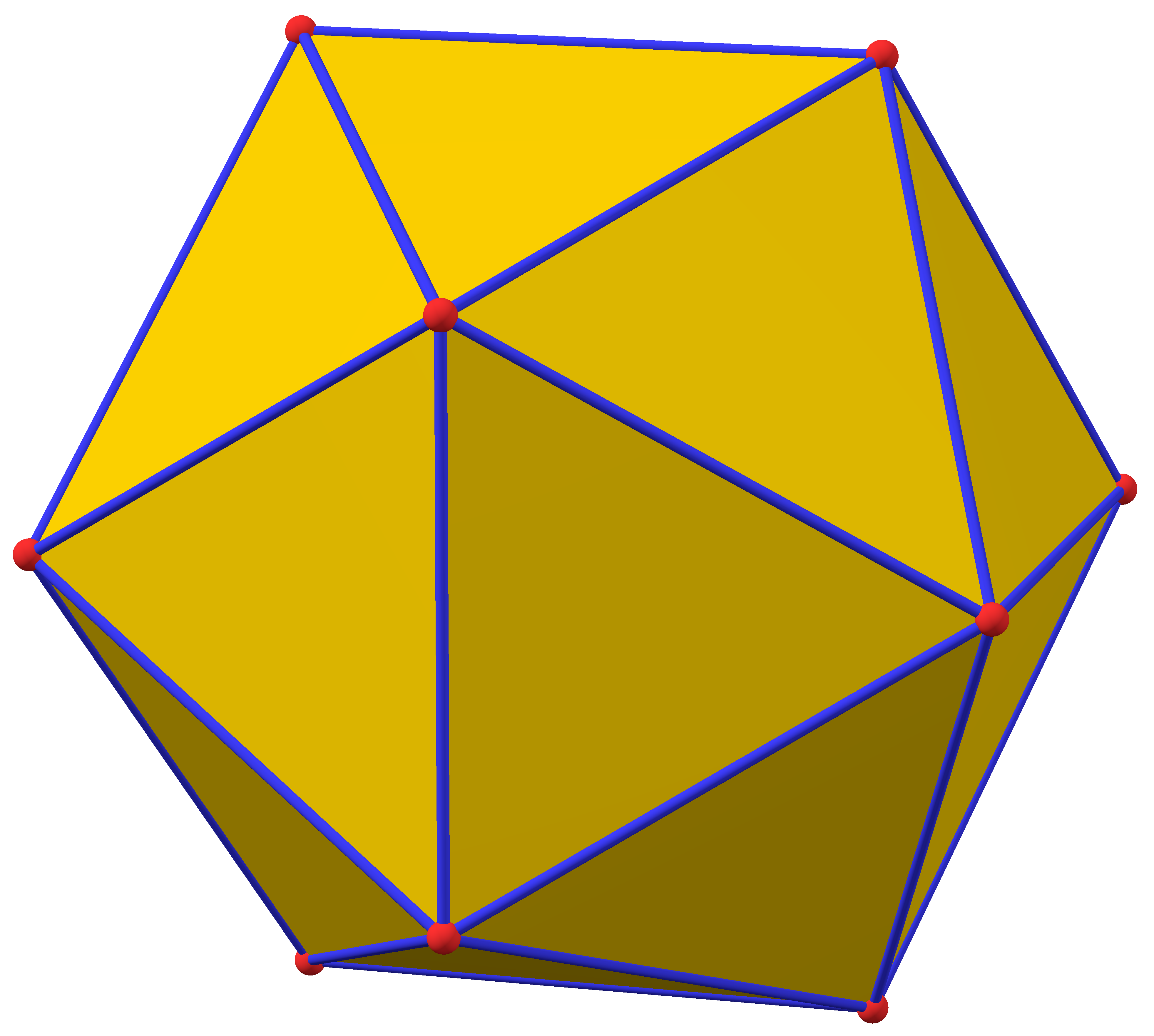 Image set Platonic, Archimedean and Catalan solids with direction colors Part of Polyhedra with direction colors (image set) This polyhedron has a form of icosahedral symmetry. There are 30 blue elements. This set contains renderings of Platonic, Archimedean and Catalan solids. For most of them the sphere shown on the right is the polyhedrons midsphere. The geometric properties of these images have been calculated with Python, and they have been rendered with POV-Ray. The source code used can be found on GitHub. The POV-Ray sources are in this folder. This image was created with POV-Ray. This PNG graphic was created with Python. The images in this set have consistent sizes and angles. Please do not overwrite them. If this image has a margin, there is probably a variant without it — or it can be uploaded. (Filename with " max" at the end.)